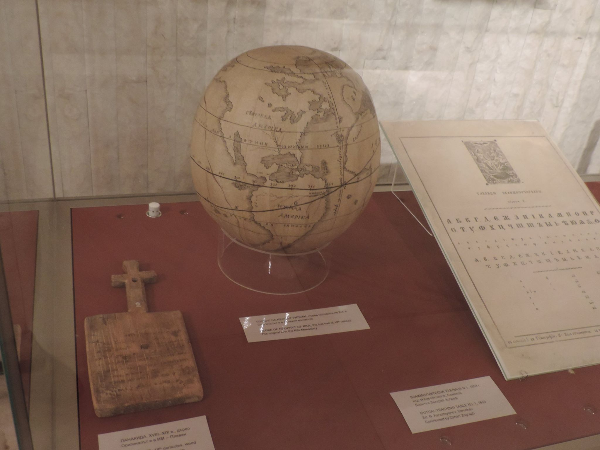 Copy of the first Bulgarian globe by Neofit Rilski, 1836. National History Museum, Bulgaria.